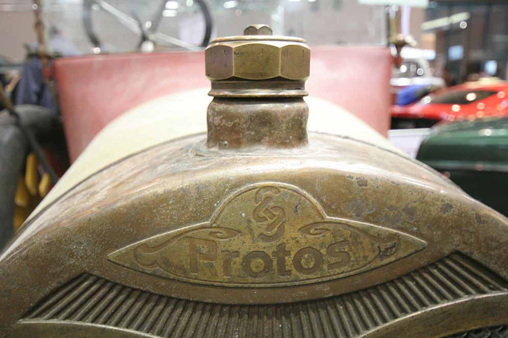 Protos G2 8/21 PS, Double phaeton 1913 - badge